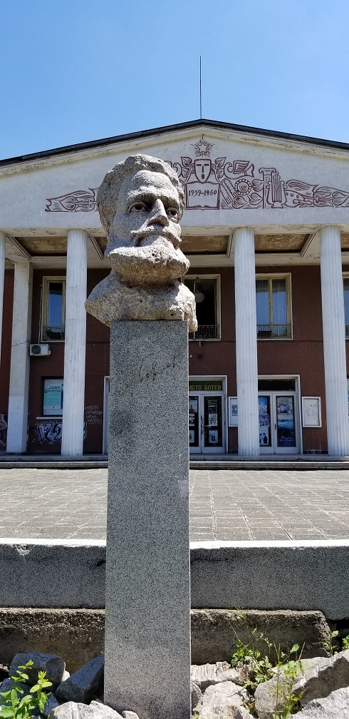 Chitalishte Hristo Botev, Plovdiv - monument to Hristo Botev